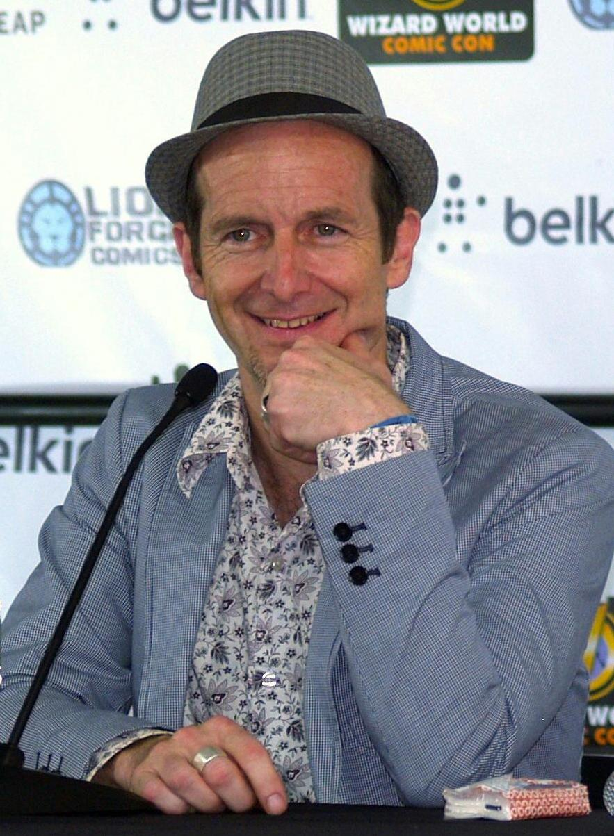 Actor Denis O'Hare (left) during a June 29, 2013 Q&A session at the 2013 Wizard World New York Experience at Pier 36 in Manhattan.